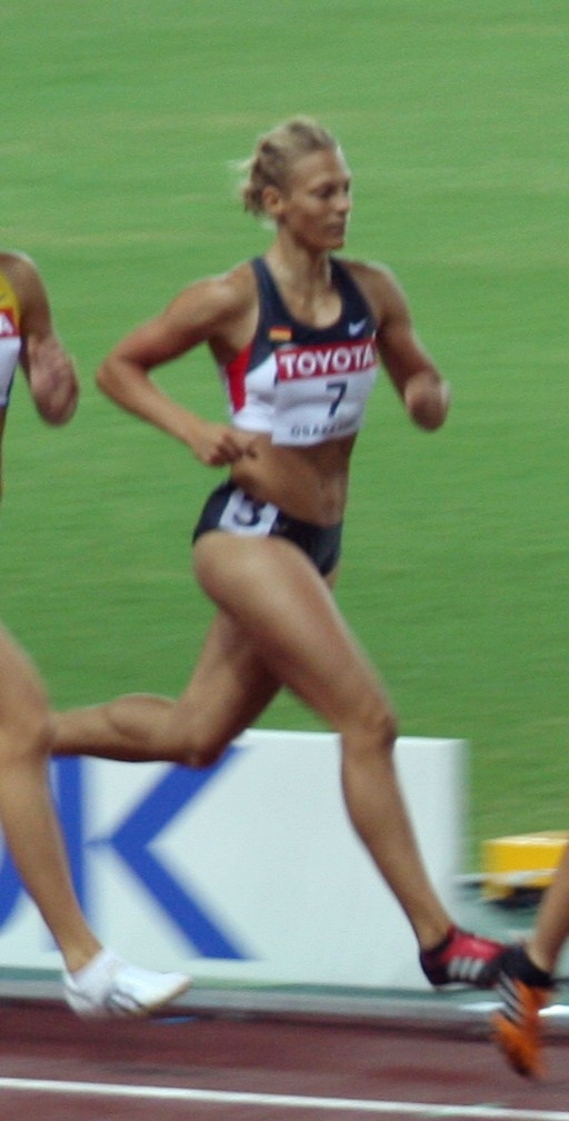 World Athletics Championships 2007 in Osaka - Jennifer Oeser in the concluding 800 metres race of the women's heptathlon